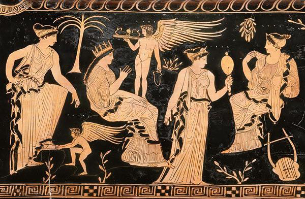 Photo of the decoration on an attic red figure vase depicting Eurynome, Pothos (his name is written above his head), Hippodamia, Eros, Iaso, and Asteria. Hippodamia may be the future wife of Pirithous or the future wife of Pelops. For a detailed description